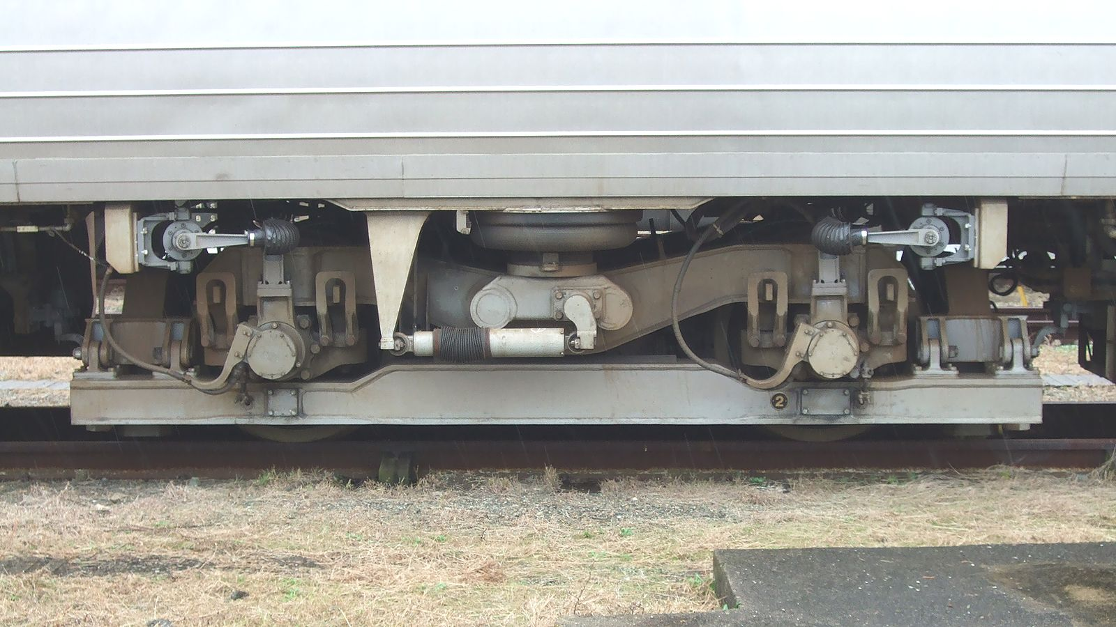 West Japan Railway Company truck WTR247, The truck of class kiya141. Location:at Shimonoseki Railway Yard, Shimonoseki, Yamaguchi, Japan